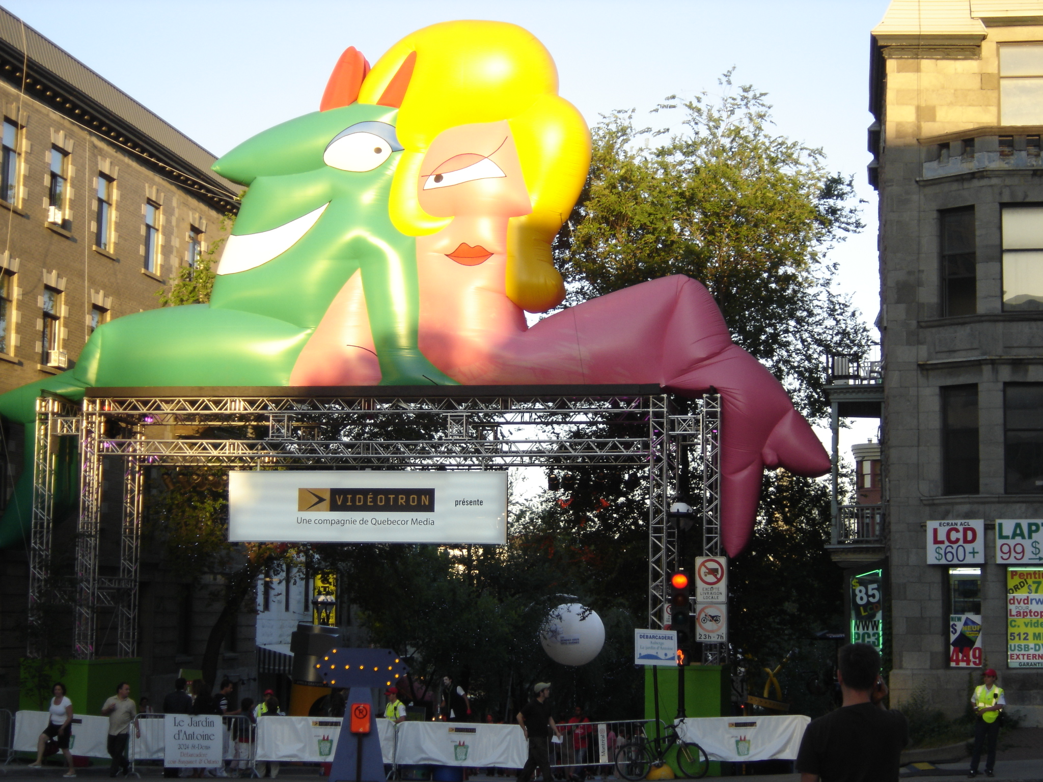 26e Just For Laughs Festival